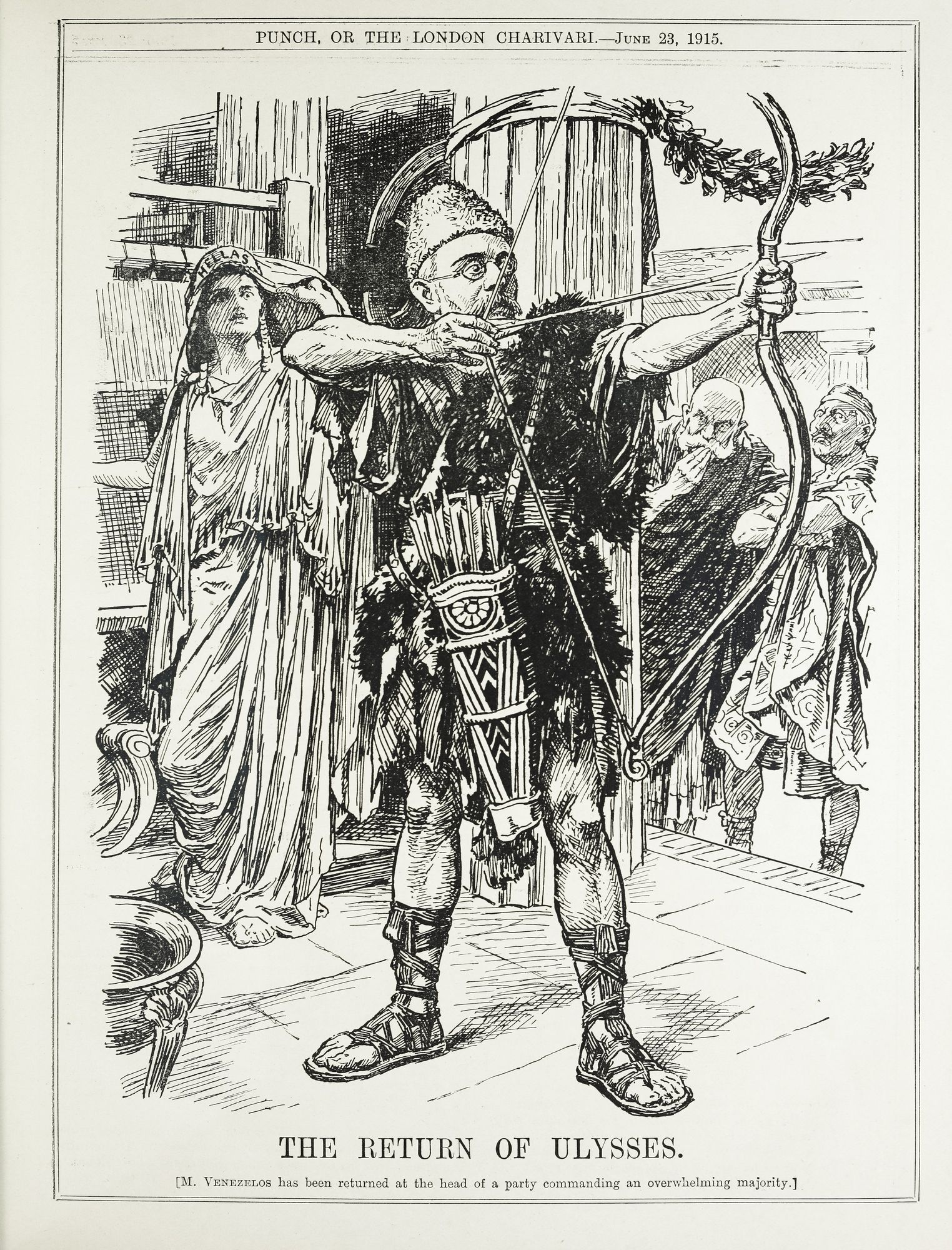 Satirical cartoon by Punch (June 23, 1915, p. 491) on the electoral victory of the pro-Allied Greek politician Eleftherios Venizelos, likening it to the return of Ulysses to Ithaca. A personification of Greece ("Hellas") stands in for Penelope, while representations of Kaiser Wilhelm II of Germany and Emperor Franz Joseph of Austria stand in for Penelope's suitors.